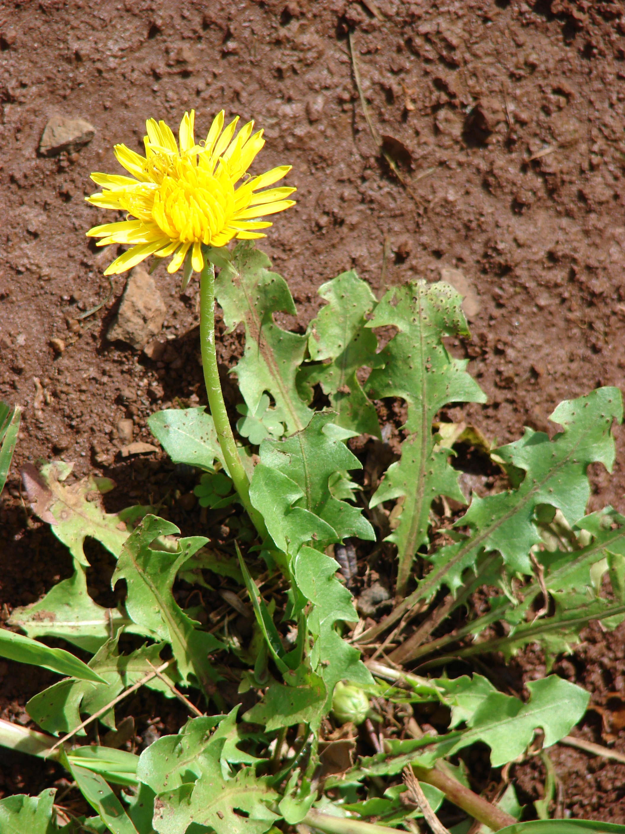 Taraxacum officinale (flowering habit). Location: Maui, Makawao